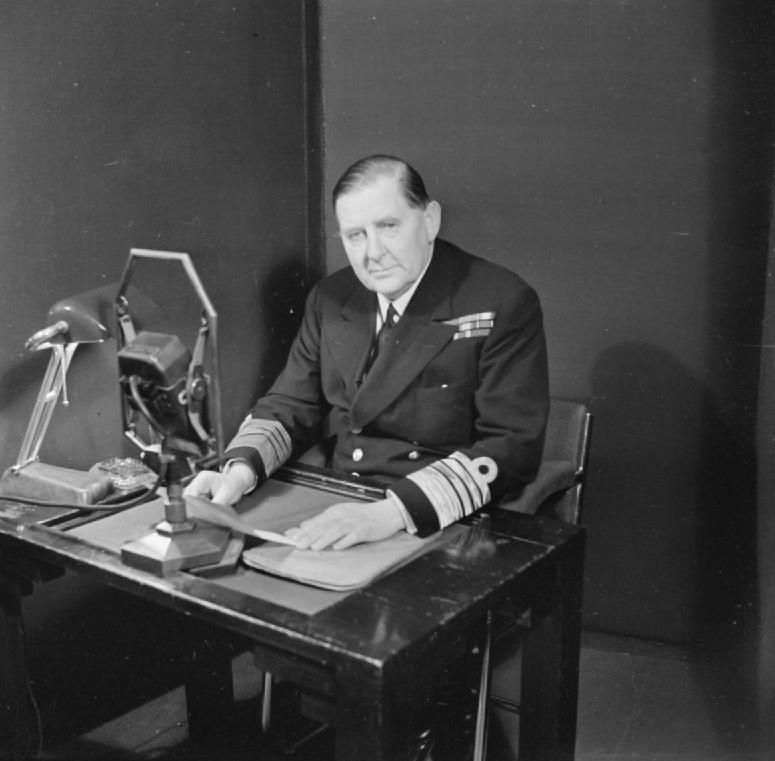 IWM caption : Admiral Sir Henry Harwood, KCB, OBE, Commander in Chief, Mediterranean Fleet sat broadcasting his New Year's message from the studio of the Egyptian State Broadcasting Corporation, Cairo.